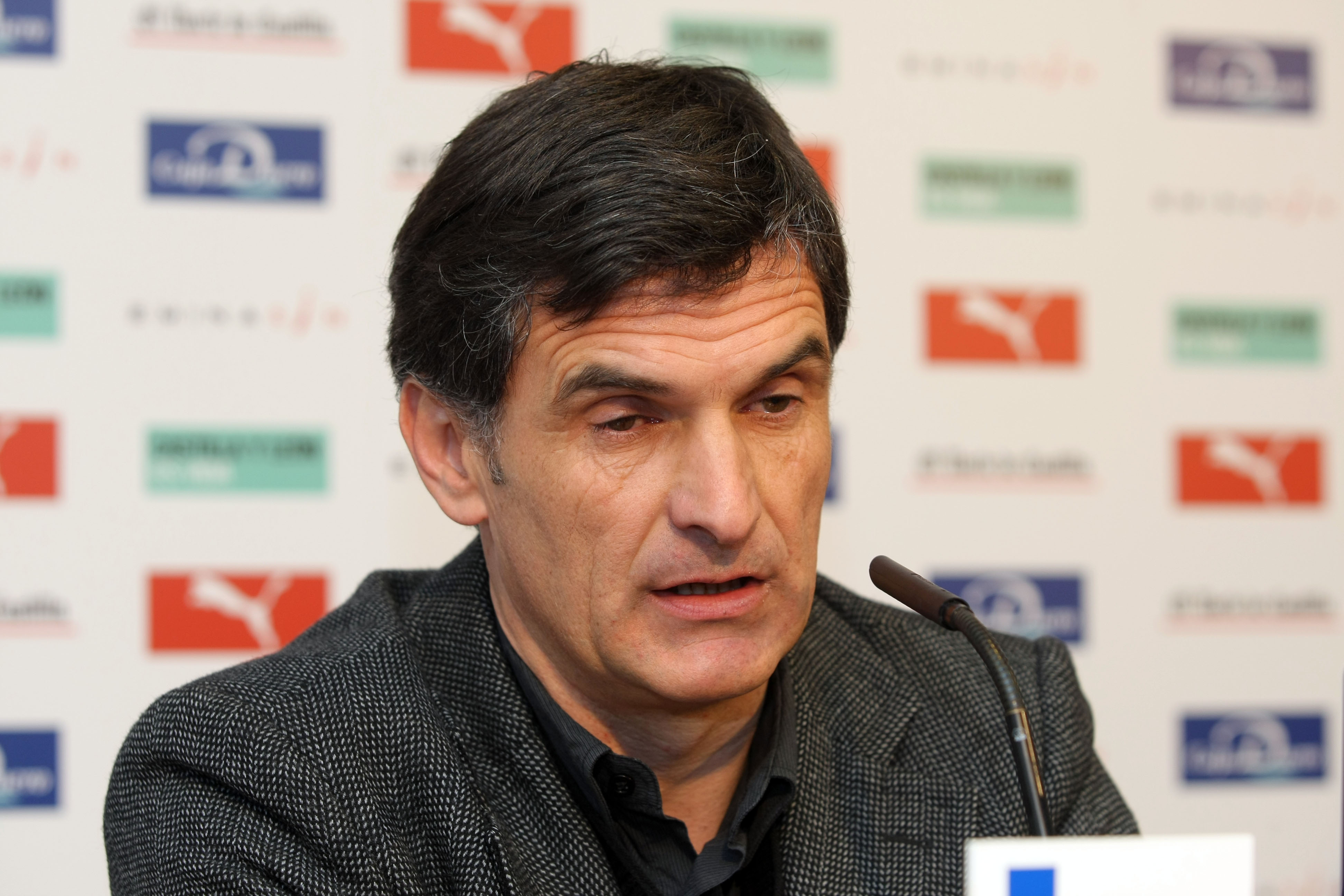 José Luis Mendilibar, retired Spanish footballer and trainer, during his last news conference as Real Valladolid's coach.